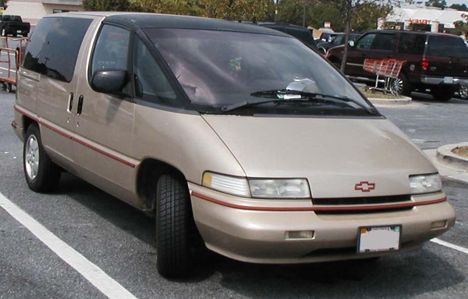 1990-1993 Chevrolet Lumina APV photographed in USA.